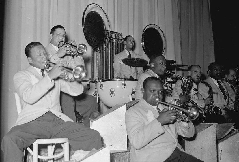 Barney Bigard, Ben Webster, Otto Hardwick, Harry carney, Rex Stewart, Sonny greer, Wallace Jones, Ray Nance. Photography by William P. Gottlieb (between 1938 and 1948)